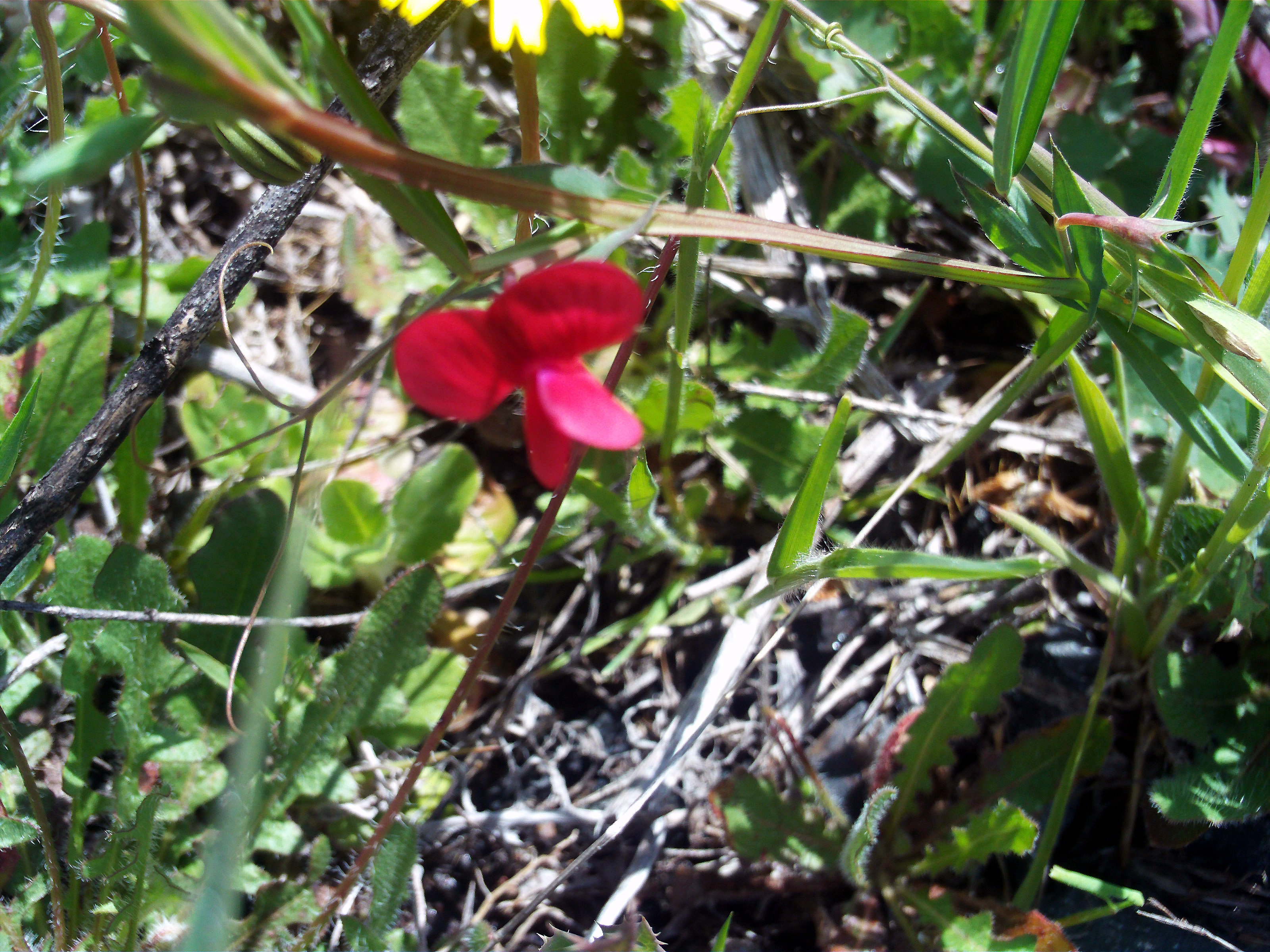 Lathyrus cicera flower close up, Dehesa Boyal de Puertollano, Spain